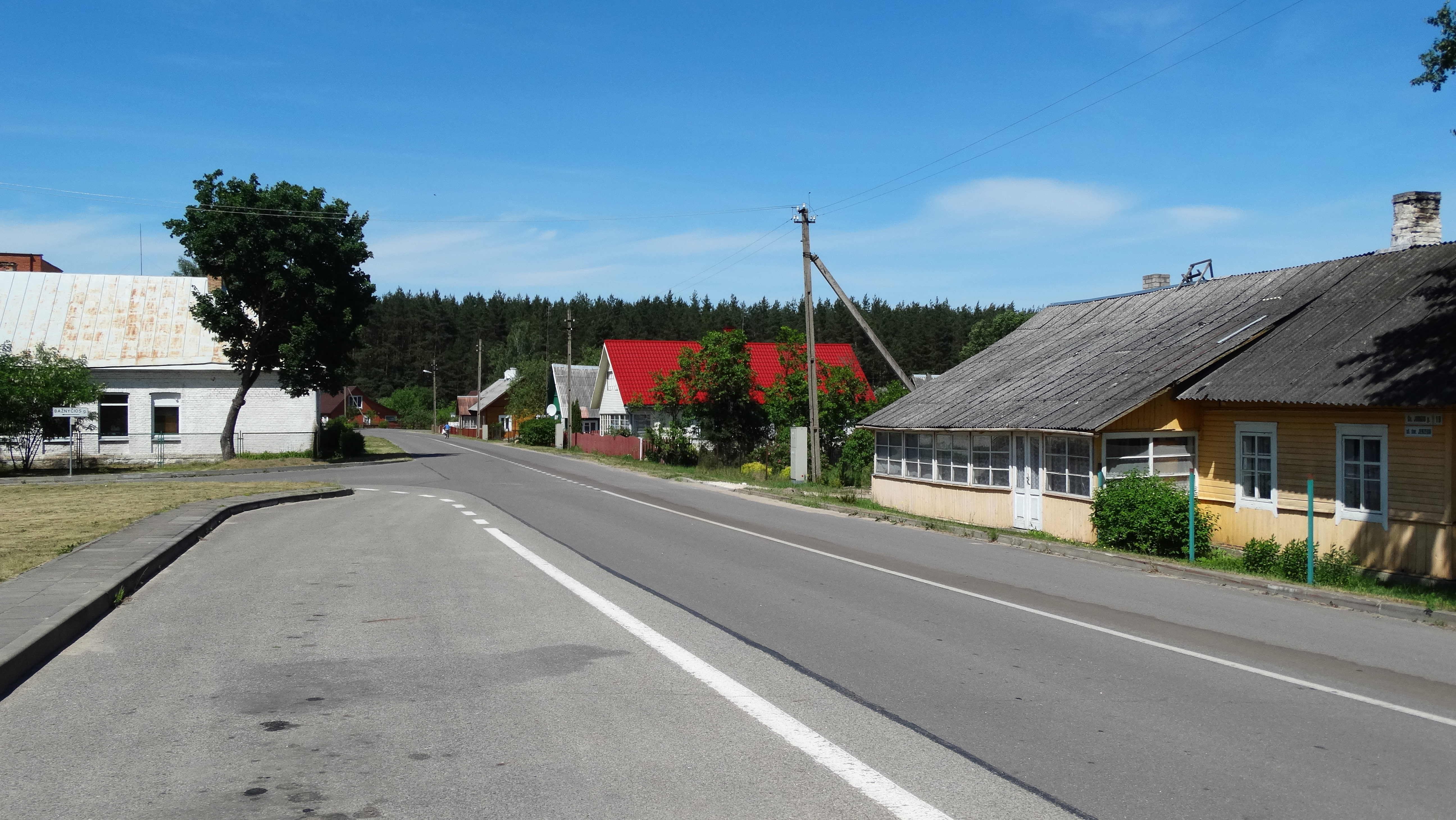 Buivydžiai, Vilnius District, Lithuania